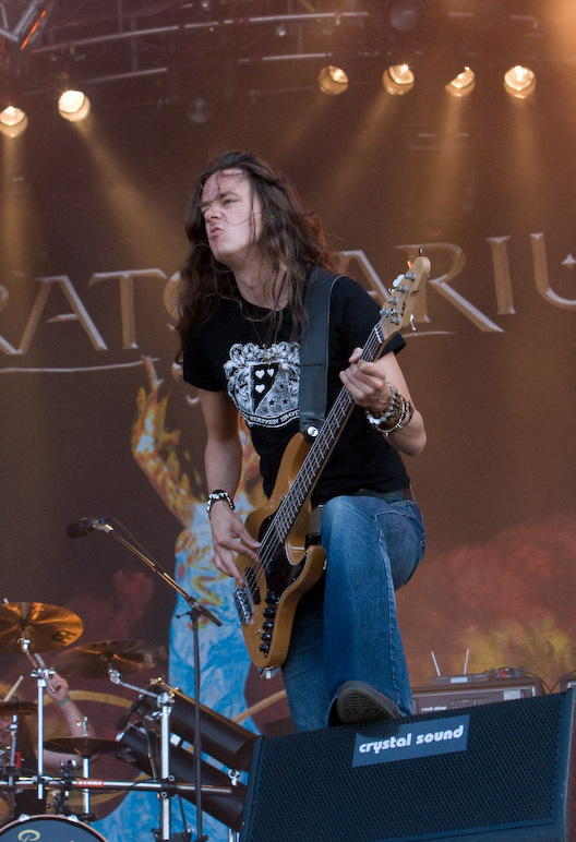 Lauri Porra of Stratovarius performing at Wacken Open Air 2007.